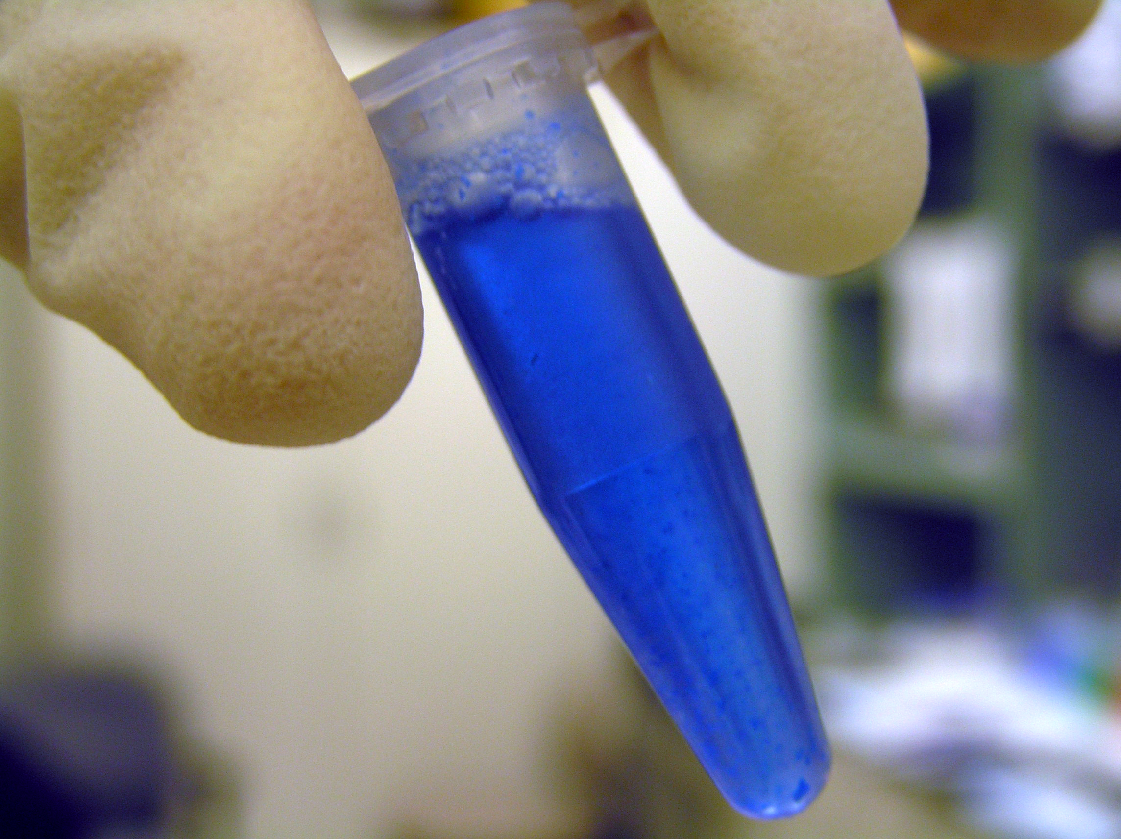 Solution of Coomassie, which turns blue if protein is present. The chuky stuff is DNA. Taken with the superzoom feature.